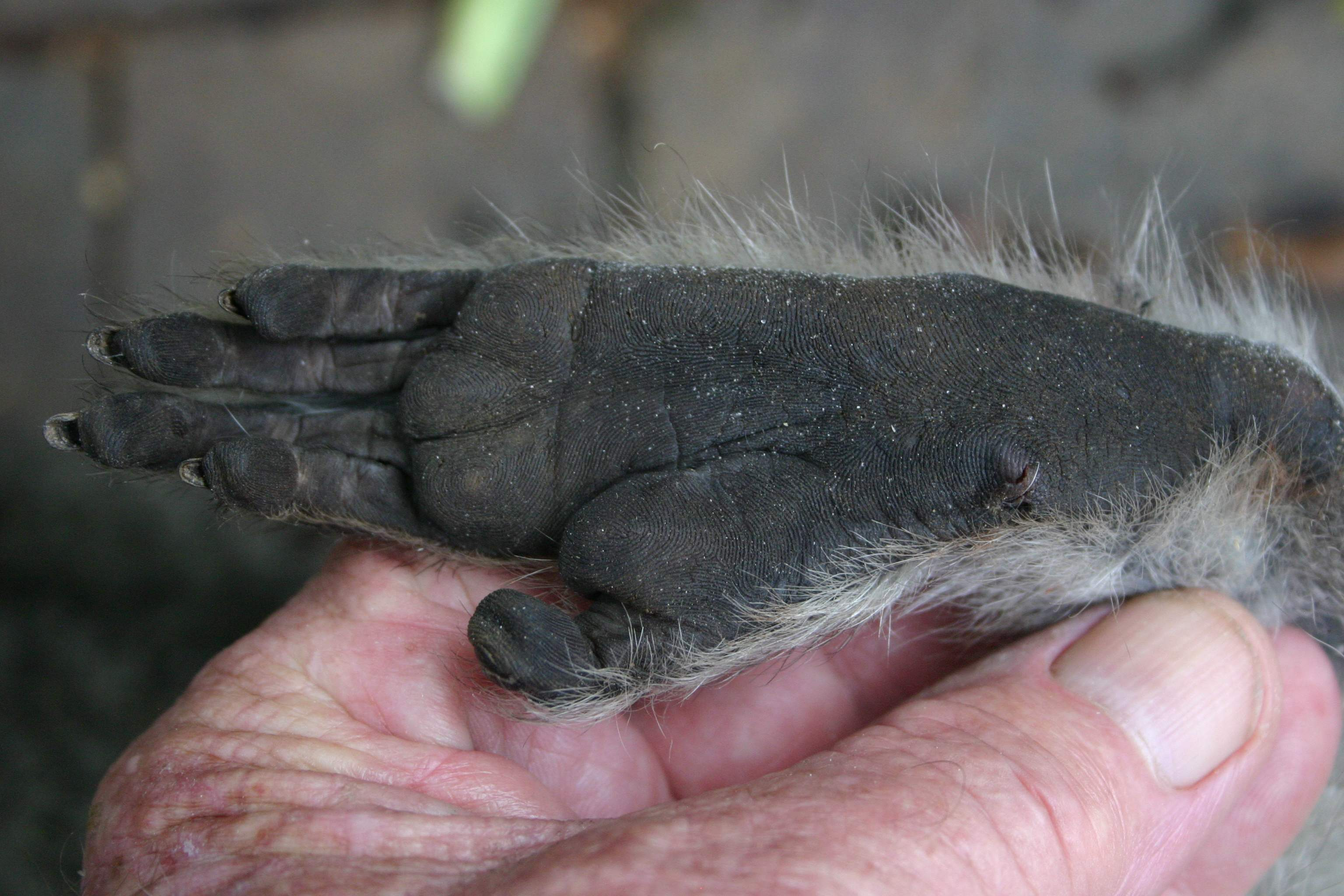 Left back foot of Chlorocebus pygerythrus - roadkill from Magaliesberg near Sparkling Waters